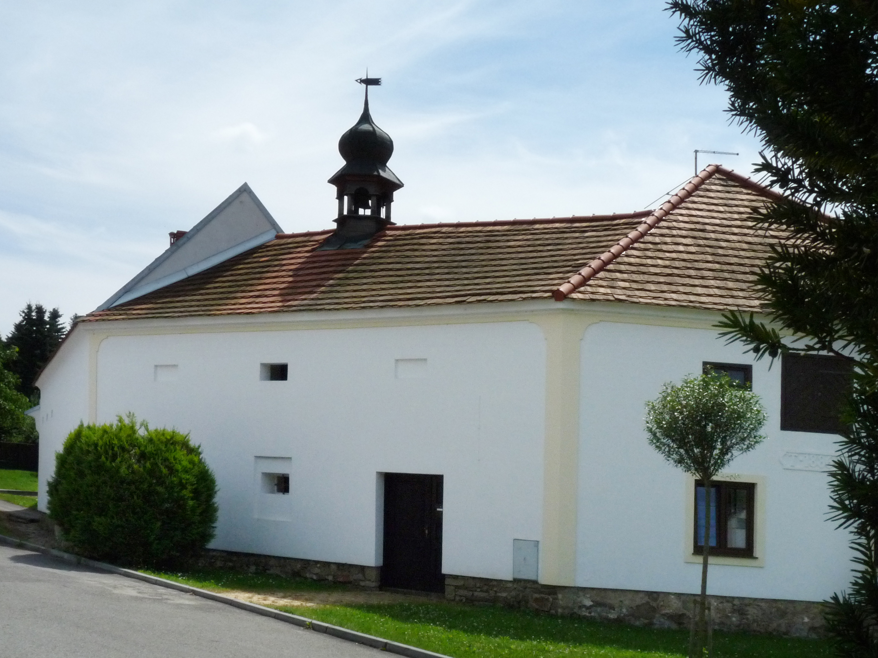 Cottage No 1in Vidov, České Budějovice district, Czech Republic